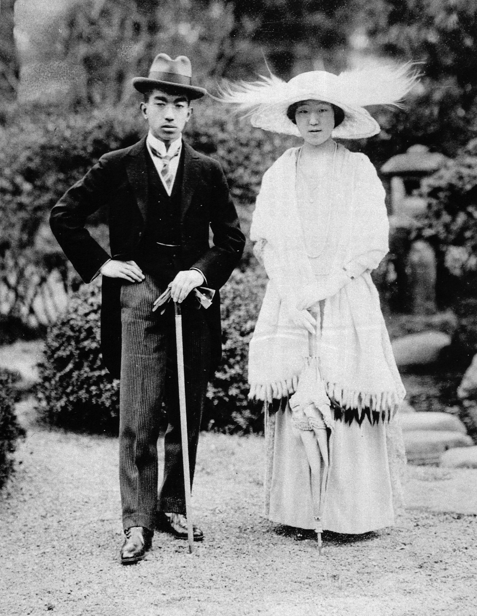 皇太子裕仁親王(Crown Prince Hirohito/Emperor Shōwa)と良子妃(Nagako/Empress Kōjun)の成婚記念写真